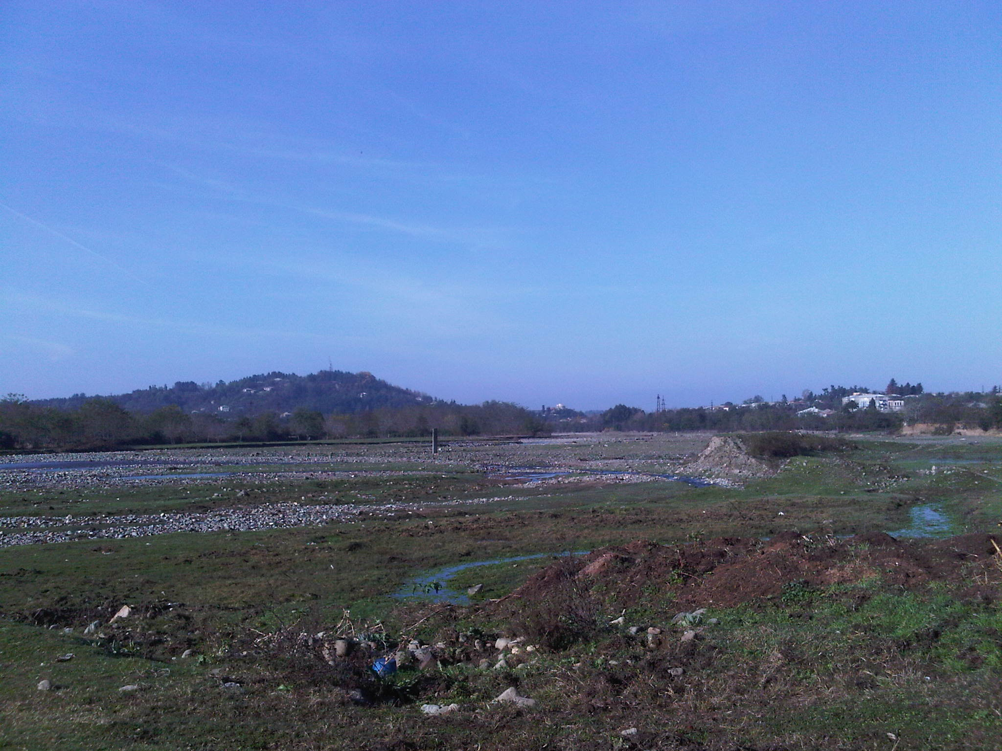 View of Anaseuli and Ekadia from Kviriketi. In Front River Bjuji